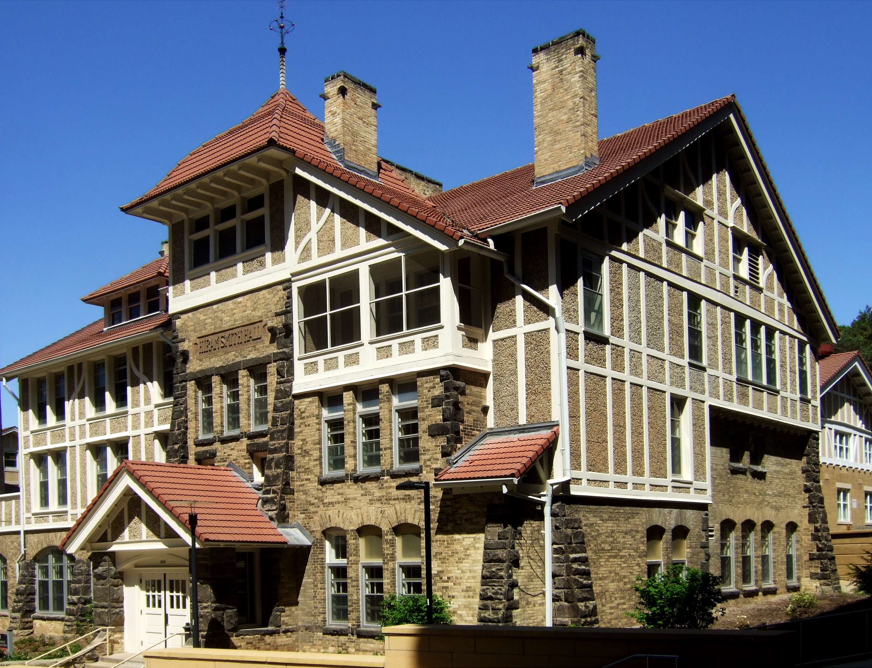 The Hiram Smith Hall and Annex on the campus of the University of Wisconsin-Madison was designed 1890-91 by the Milwaukee firm Ferry & Clas. Listed in the National Register of Historic Places since 1985, it now houses Life Sciences Communications.